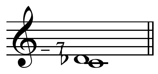 Septimal third-tone on C = D♭- (Ben Johnston's notation). Just: 28:27 = 62.96 cents. Limit: 7-limit.